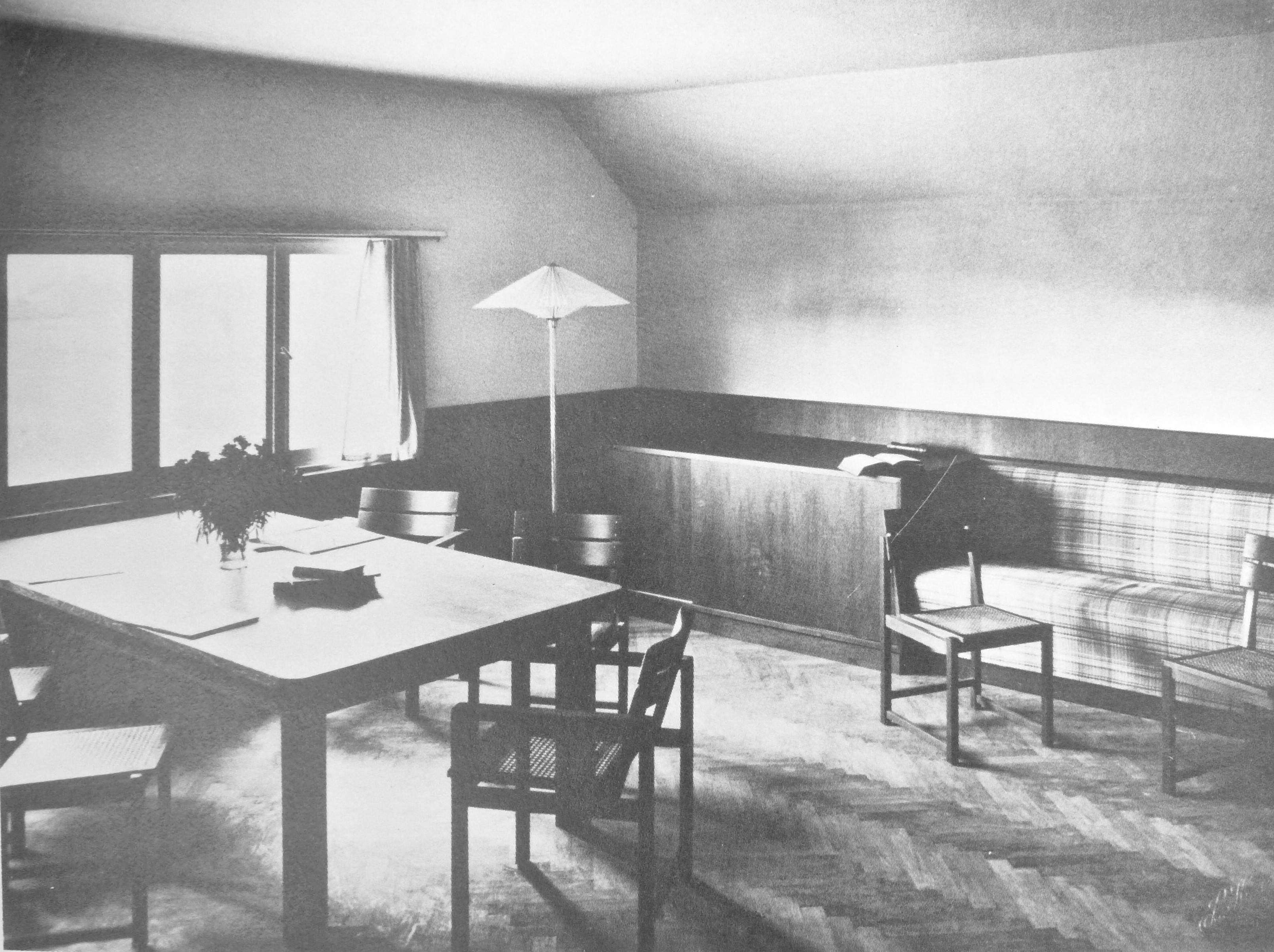 A student's work room of Musikheim in Frankfurt an der Oder, Germany, planned by architect Otto Bartning (1878–1959) and performed by furniture designer Erich Dieckmann (1896–1944)